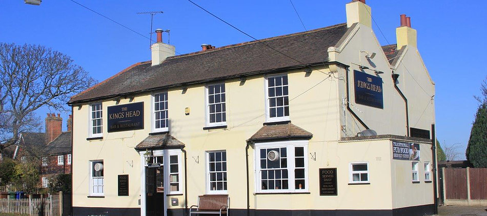 Frontage of Pub 2016